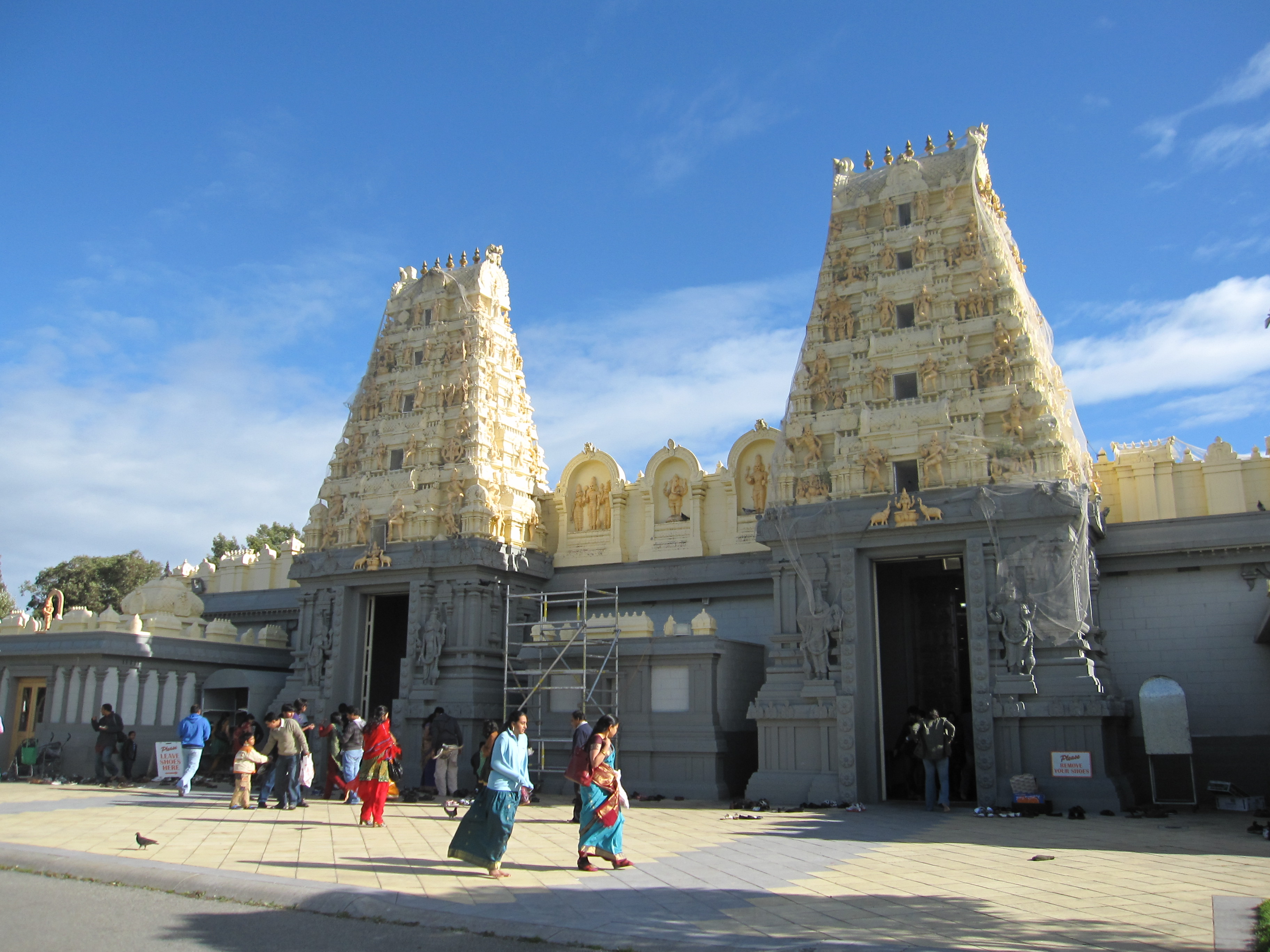 Shri Shiva Vishnu Temple, in Carrum Downs, Melbourne, Victoria, Australia.